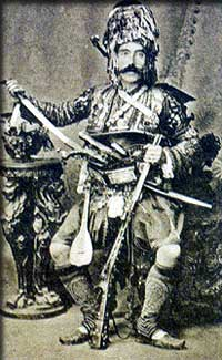 Efe (1880's) This is a caricature of an Efe, apparently a picture of an American tourist